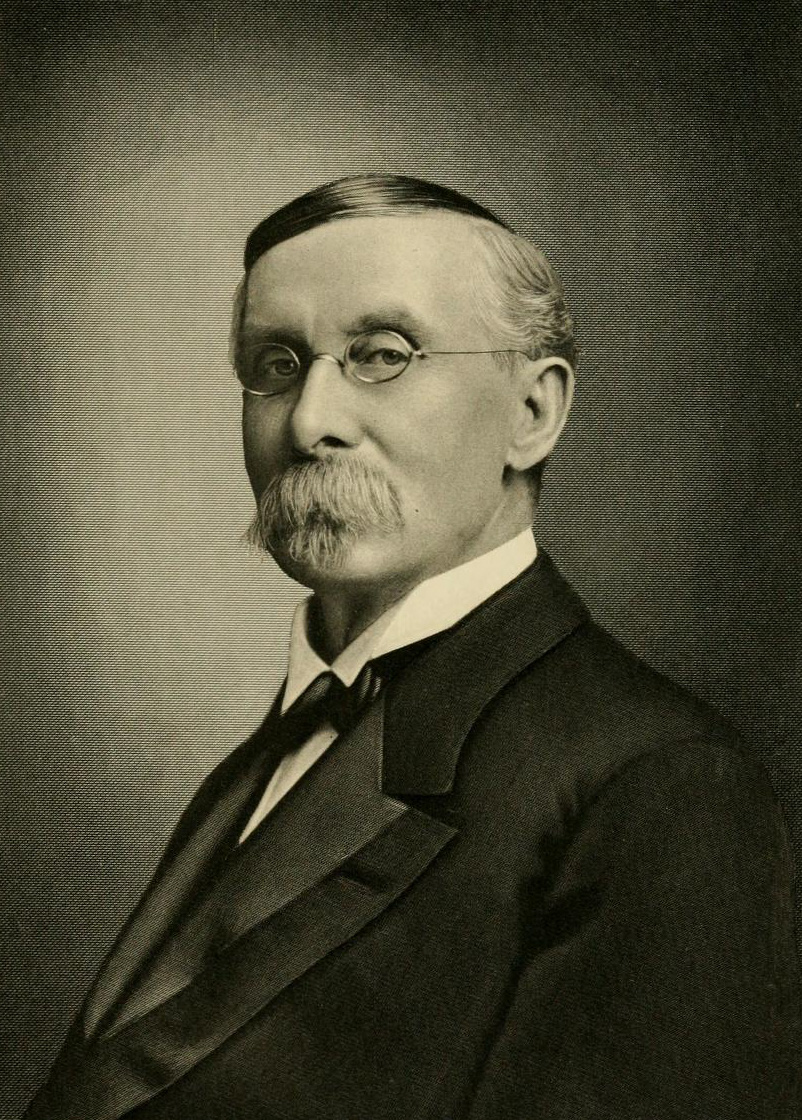 Frank Hall inventor of Braille communication